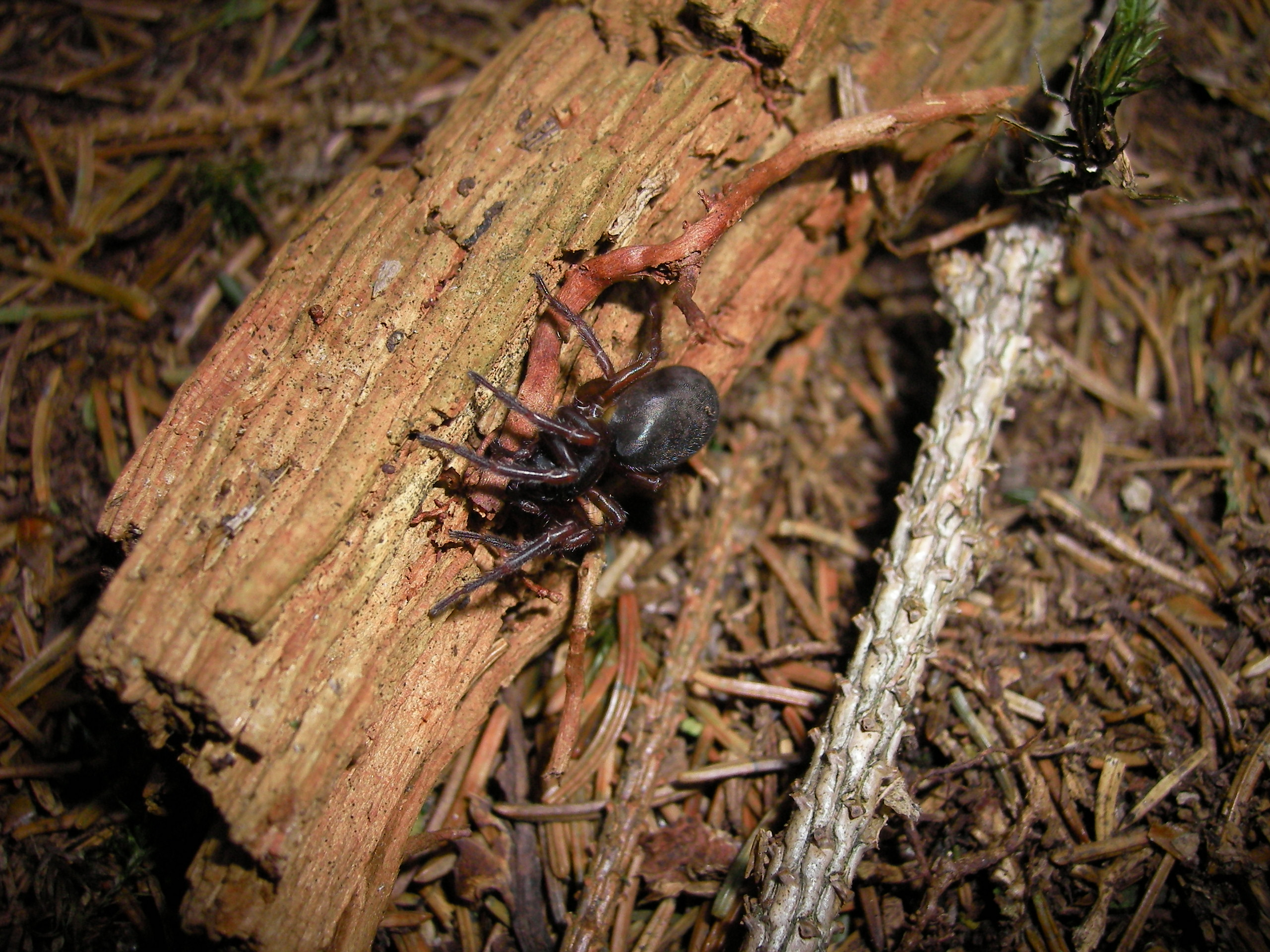 Spider, Amaurobius cf. ferox